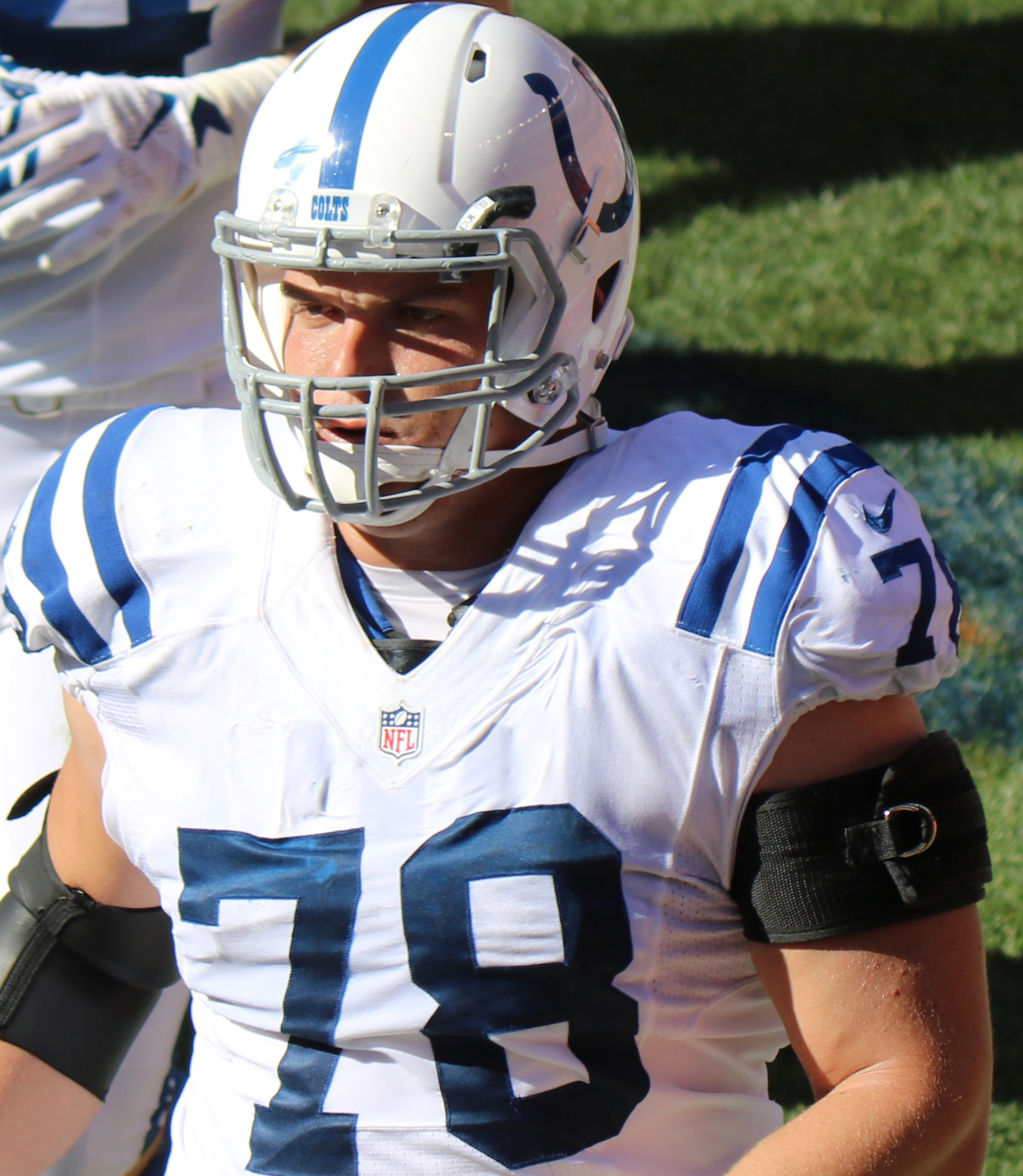 Ryan Kelly, a player on the National Football League.